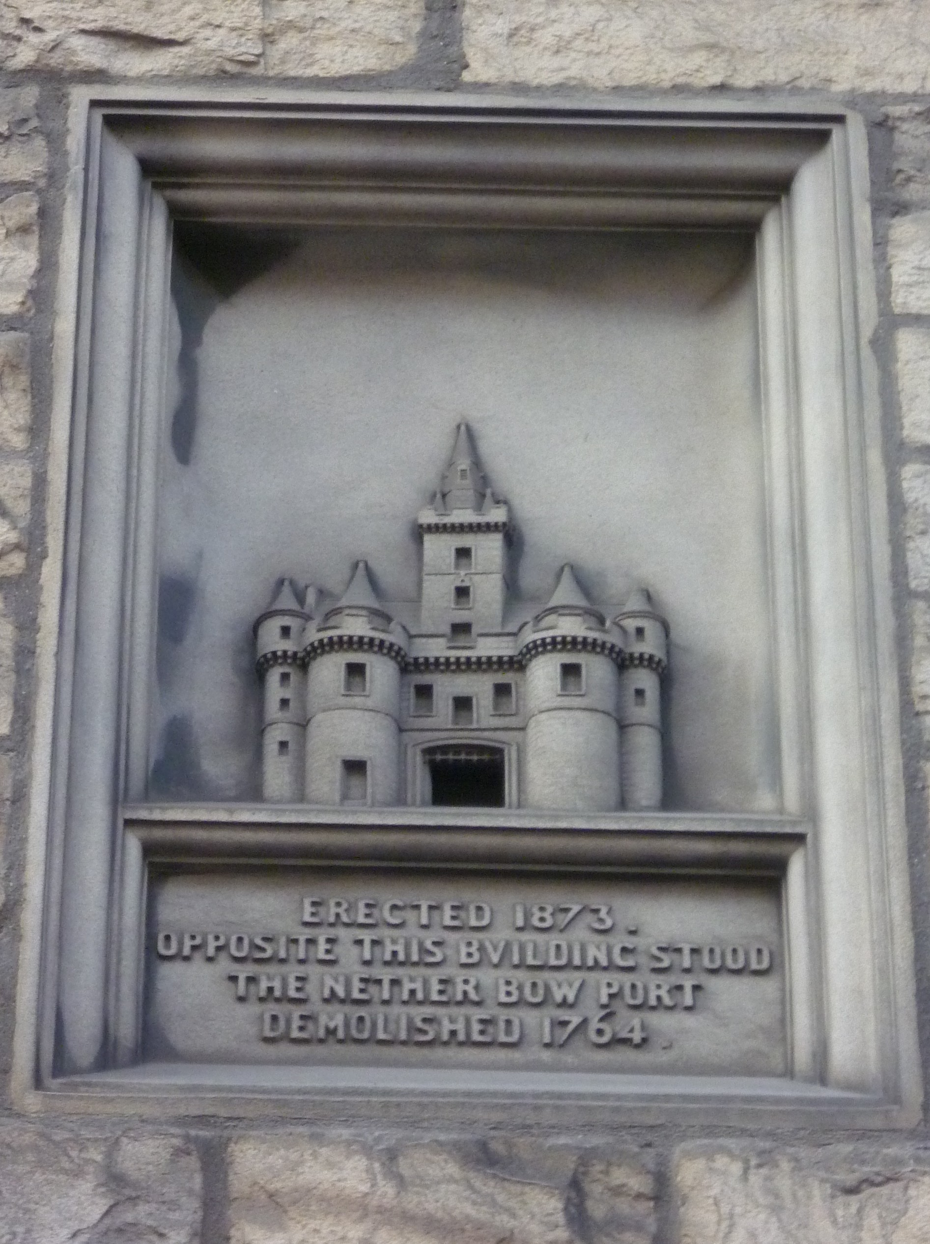 A tablet marks the site of the fortified gateway which formerly guarded the eastern approach to the town.